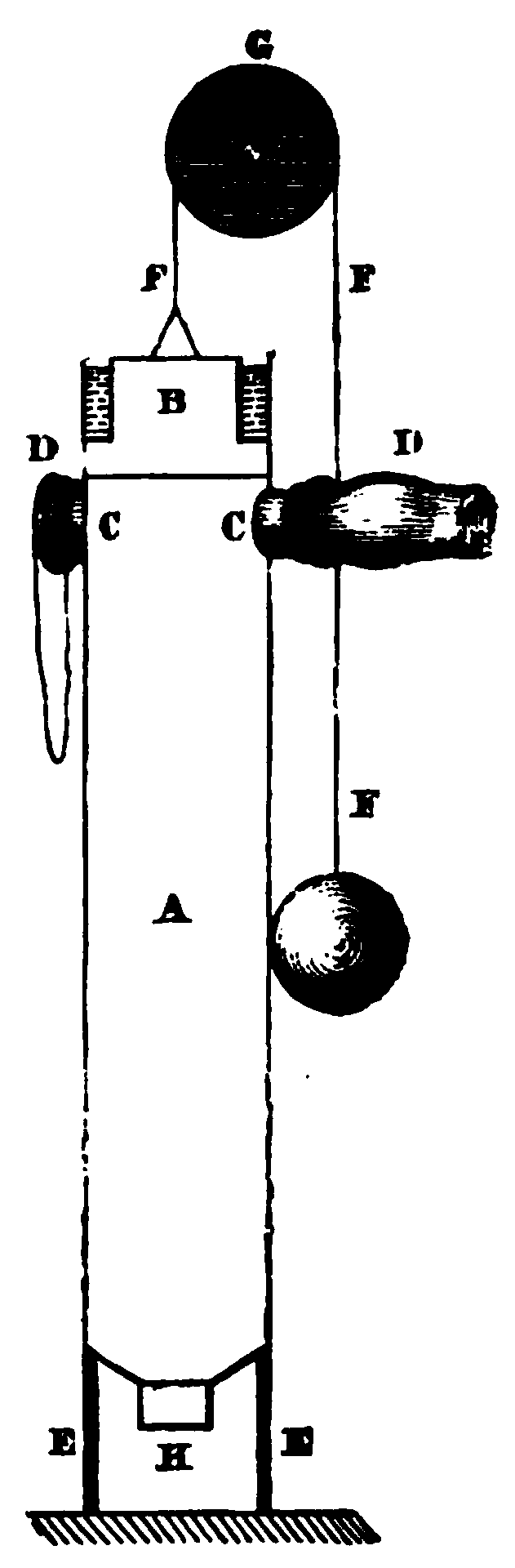 Huyghens' Gunpowder and Air Engine, consisting of a hollow cylinder A, well polished within and of uniform size throughout. B, a movable piston inserted into the top of the cylinder, the upper portion of which is surrounded by a small quantity of water. C, C, two apertures, each one-half the diameter of the cylinders which are fastened to the main cylinder at the apertures, (one of the tubes being shown extended, the other hanging). E, E, holdfasts, by which the cylinder is joined to the case in which it sits, which is not shown in the figure. F, F, a cord attached to the piston and passing over a pulley G, for the purpose of raising whatever is attached to it. H, a small box for receiving the charge of gunpowder, attached to the bottom of the cylinder by means of a screw, a leather ring being employed to aid in making the joint air-tight. On the explosion of the charge, the air contained in the cylinder was driven out through the leather tubes C D, C D, which were momentarily extended, but immediately closed again by the external air; and the cylinder being vacuous, the piston B was driven down by the atmospheric pressure, drawing with it the cord F, and raising whatever was suspended by it.